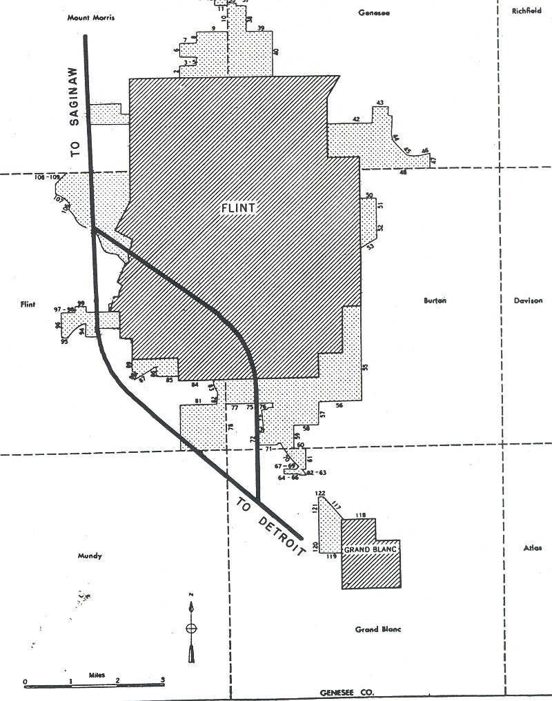 Interstates in today's terms I-75 I-475